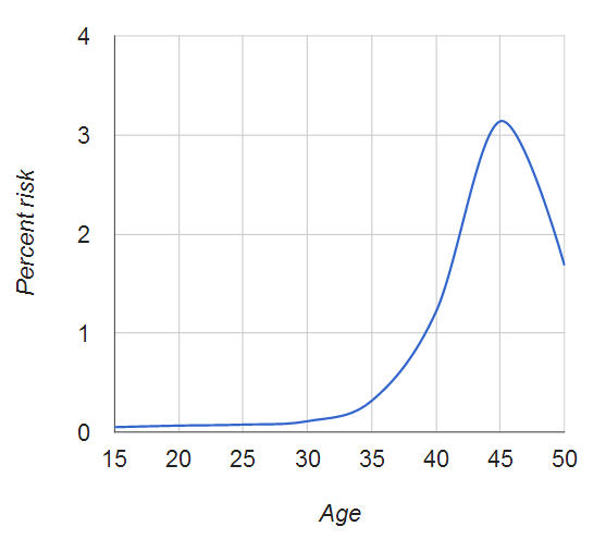 The risk of having a Down syndrome pregnancy in relation to a mother's age. Data from